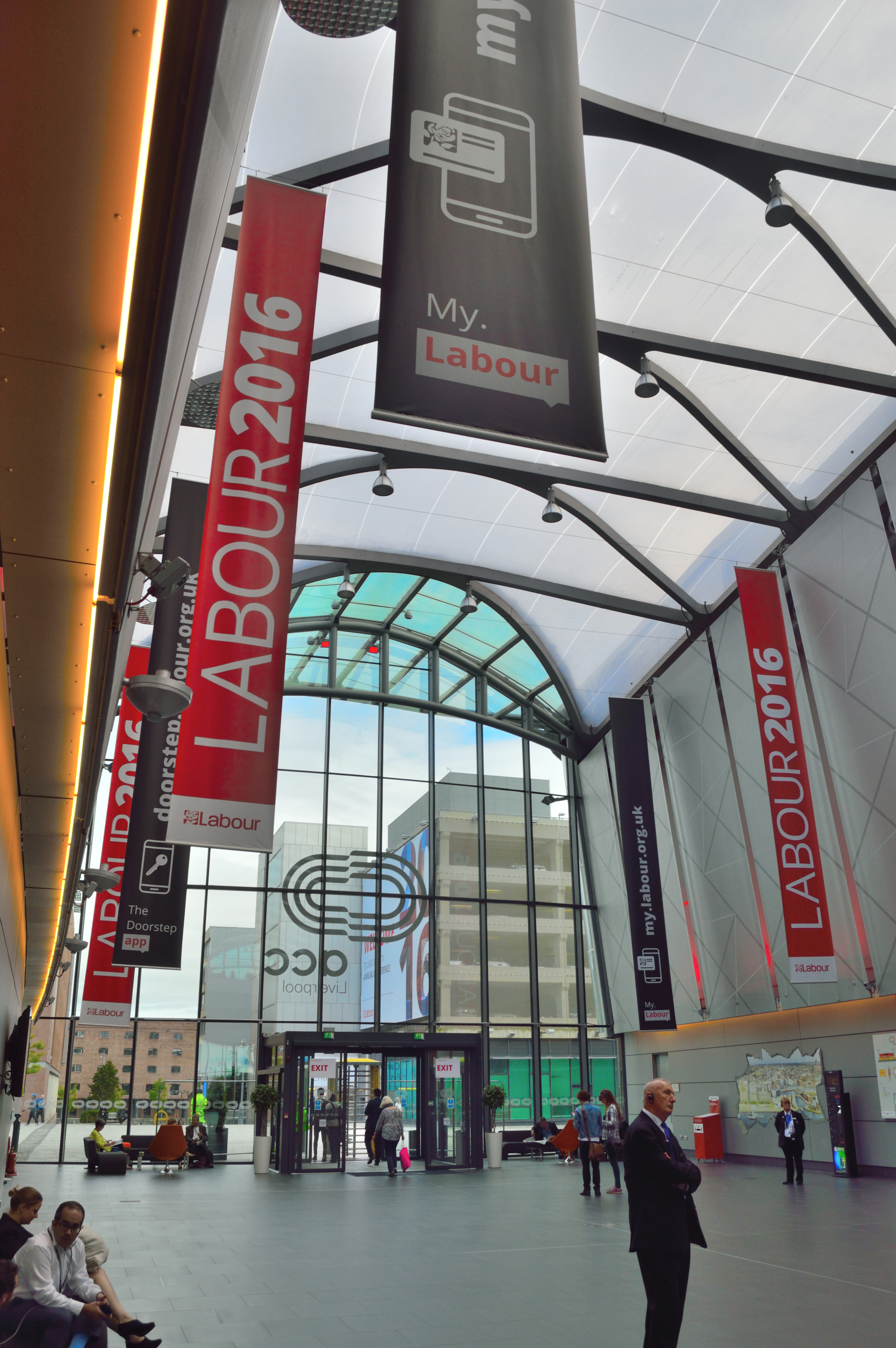 An exit route at the 2016 Labour Party Conference, conference. Normally this is an entrance to the conference centre, but because a special security entrance tent had been set up elsewhere, this route was configured as exit only.